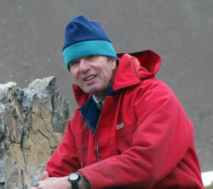 Detail of David Scott Cowper at Stomness, South Georgia in 2003